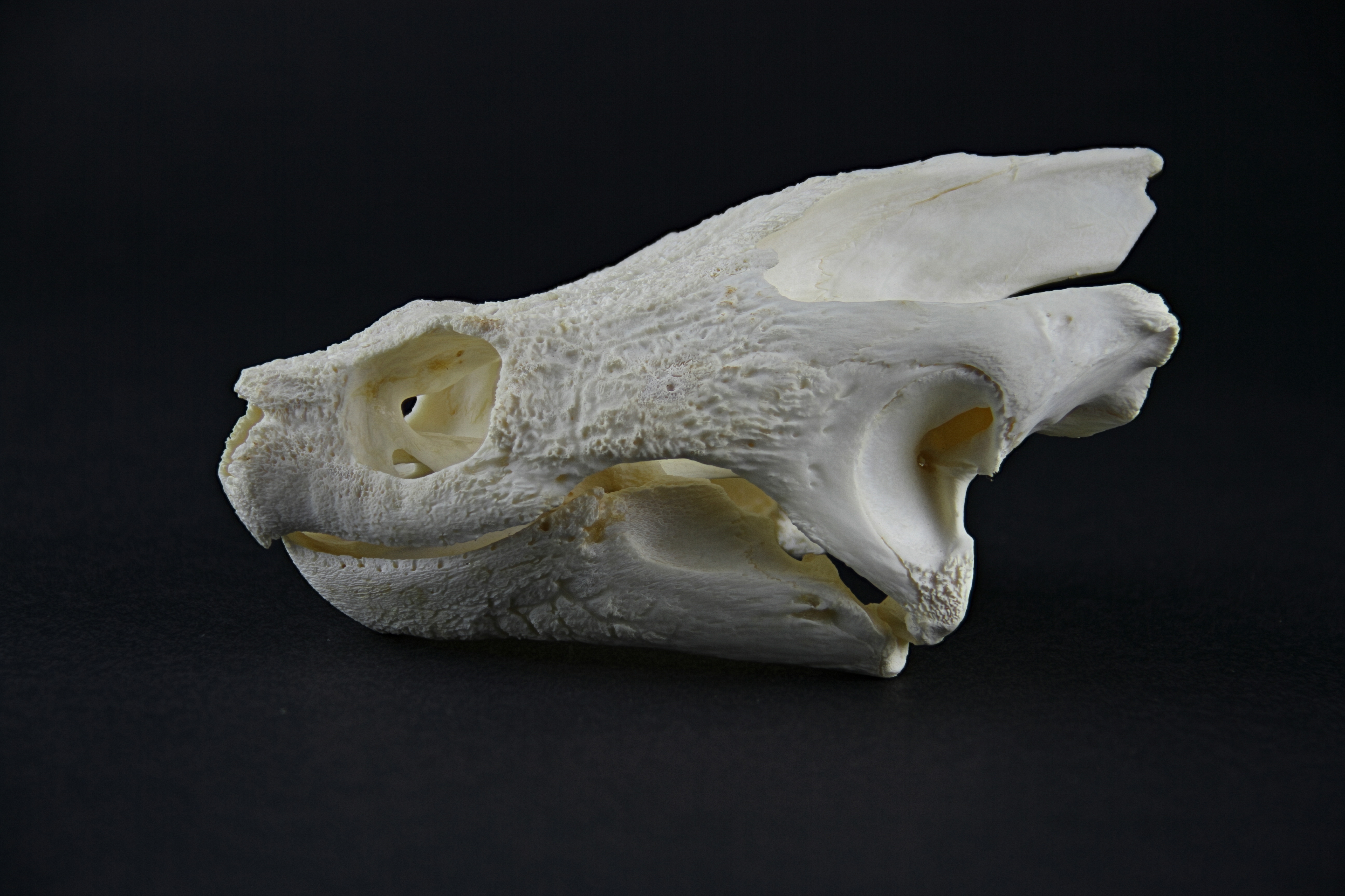 Skull of a chelydra serpentina, lateral view.